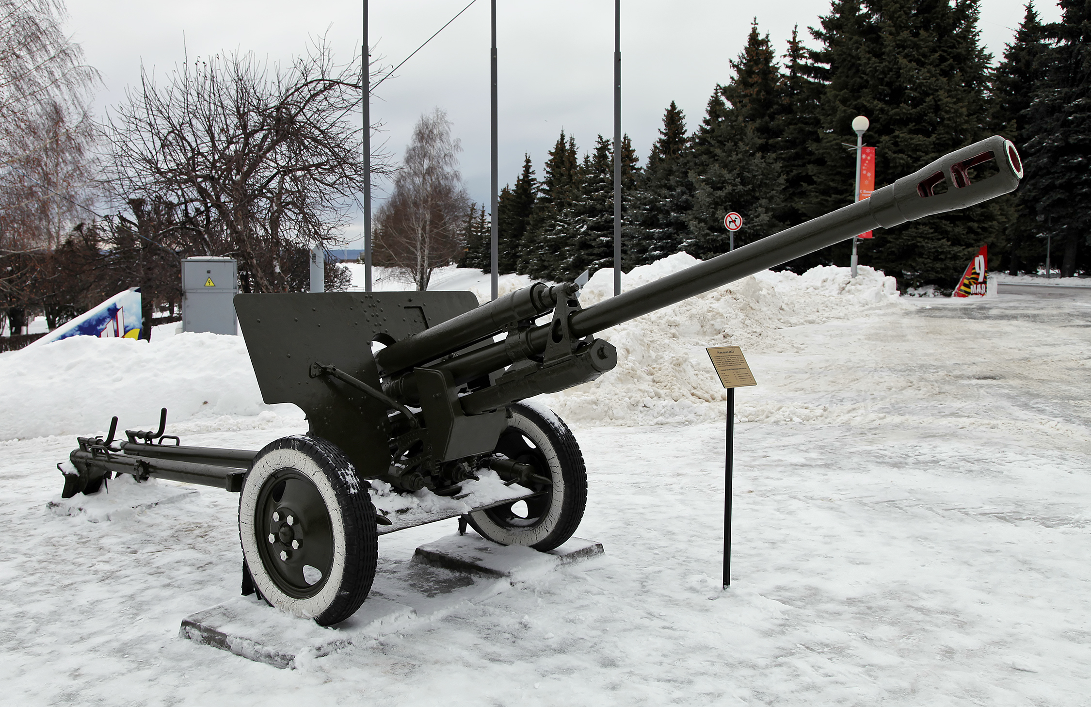 76mm divisional gun ZIS-3 M1942